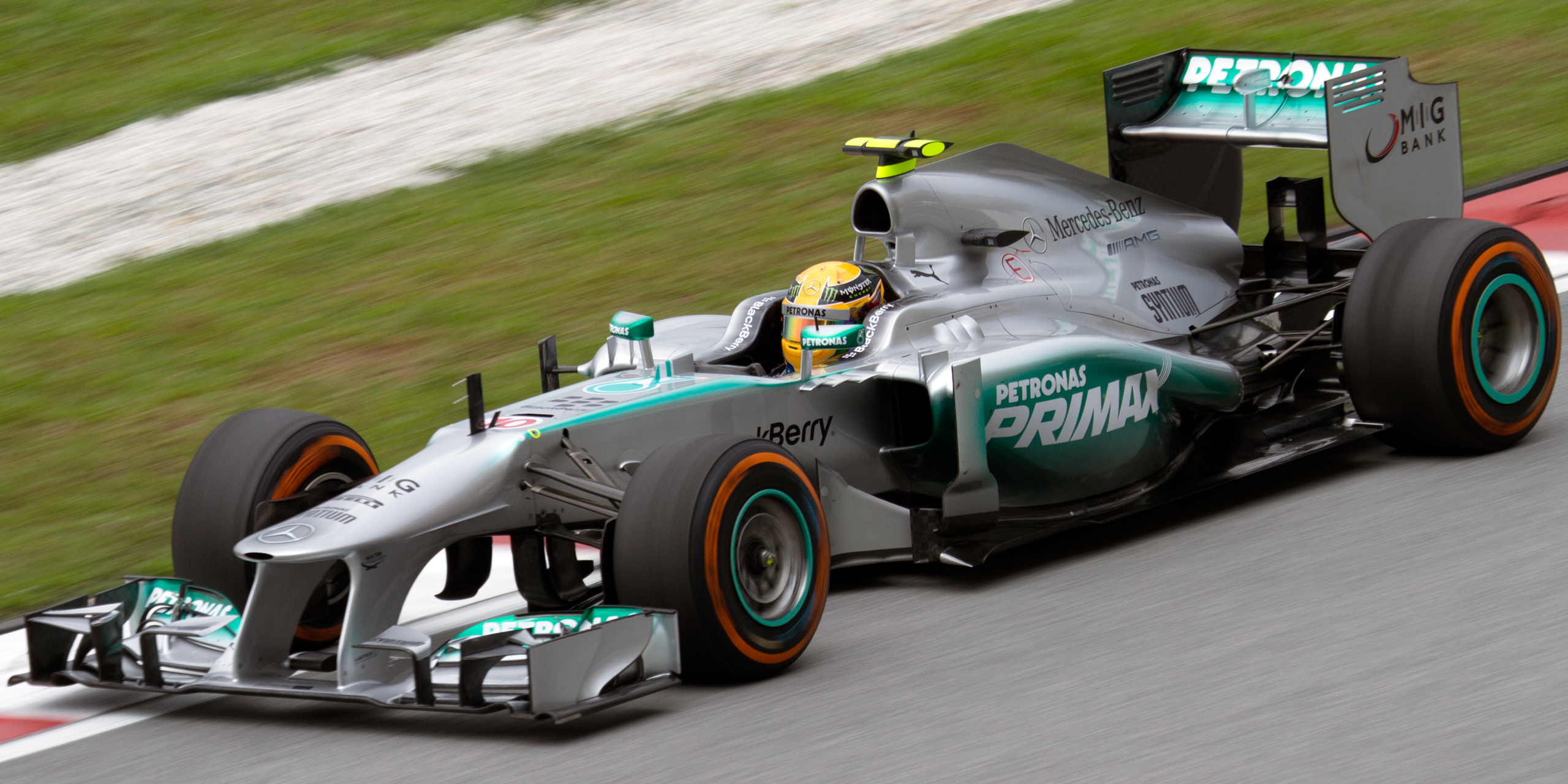 Formula One 2013 Rd.2 Malaysian GP: Lewis Hamilton (Mercedes) during the second practice session on Friday.